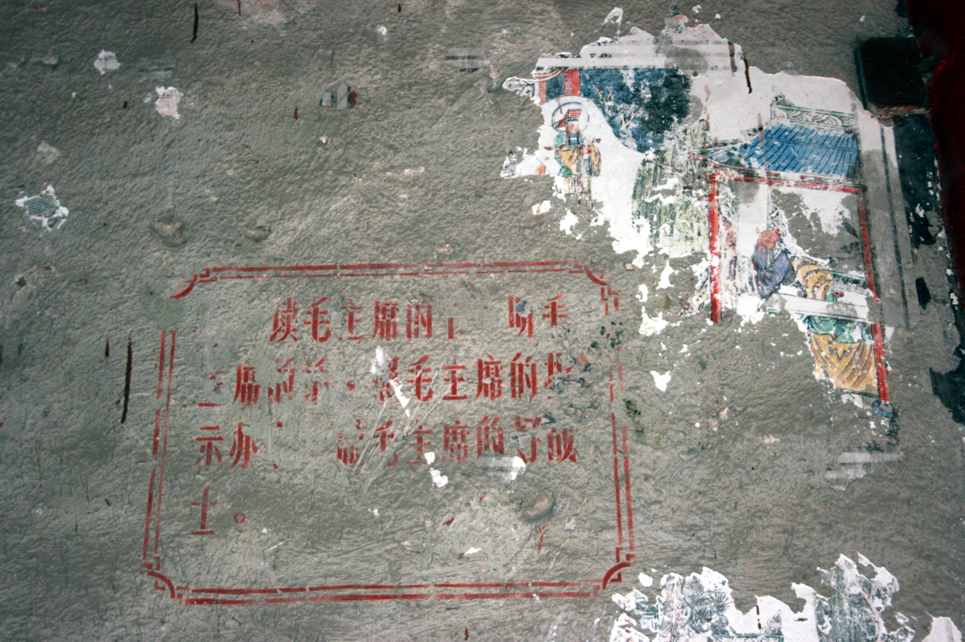 Photograph of layers of plaster in a building of the Huayang Palace at the foot of Hua Hill in Jinan, Shandong, China. The original wall frescos (still visible in the upper right hand corner) have been plastered over during the Cultural Revolution. The red text also dates from the Cultural Revolution, it is Lin Biao's foreword to Mao's Little Red Book: "Study Chairman Mao's writings, follow his teachings, act according to his instructions, and be a good soldier of his." Lin Biao's name has been scratched out below the quote (bottom right), presumably after his downfall.